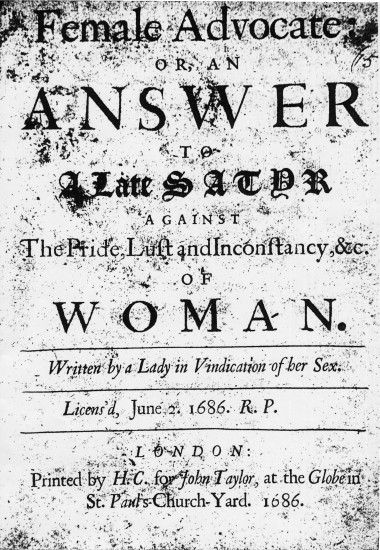 "The Female Advocate," image taken from Emory Women Writers Resource Project.